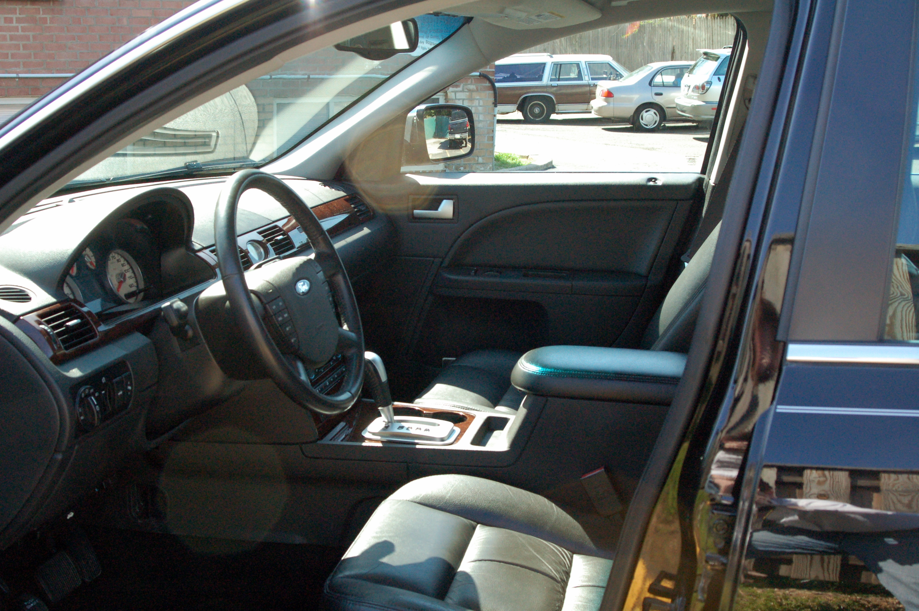 The interior of the Ford 500 Limited (black leather interior with a wood trim).